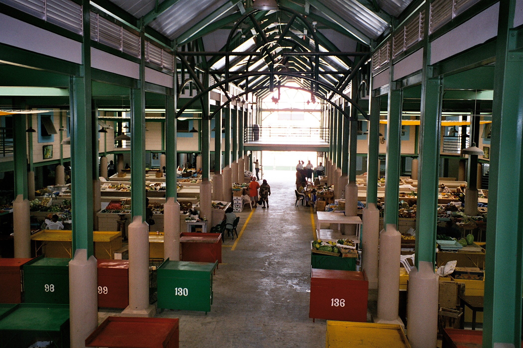 Antigua. An indoor general market in the capital St. John.